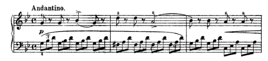 part of the music sheet of Diabelli's Sonatina Op. 168, br. 4. B-flat major